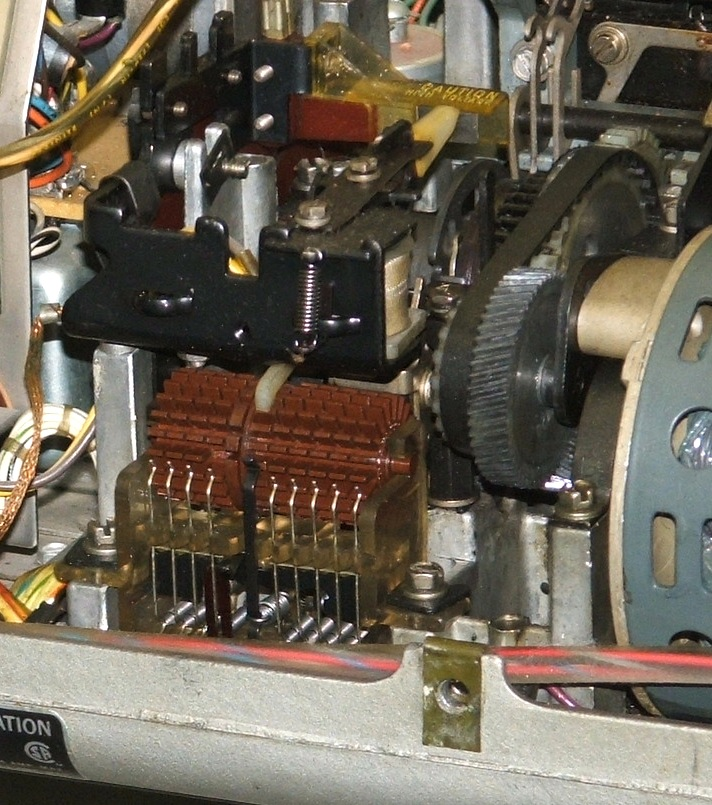 Rear view of a Teletype Model 33 ASR showing the answer-back drum, the brown spined cylinder at the left center of the image. By breaking off spines of this drum. the message sent in response to the ASCII ENQ character could be encoded. The drum operates like a music box mechanism, with the comb of metal fingers in front of the drum reading out the message as the drum rotates.